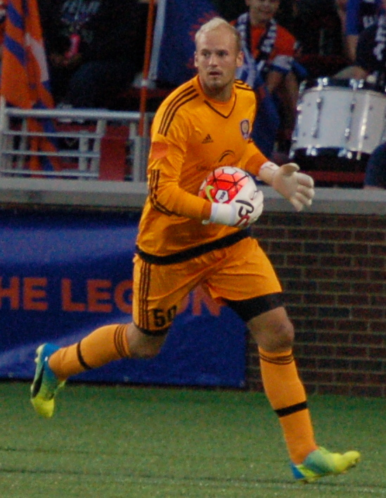 Mark Ridgers Taken during USL regular season match between FC Cincinnati and Orlando City B at Nippert Stadium in Cincinnati, USA on September 17, 2016.